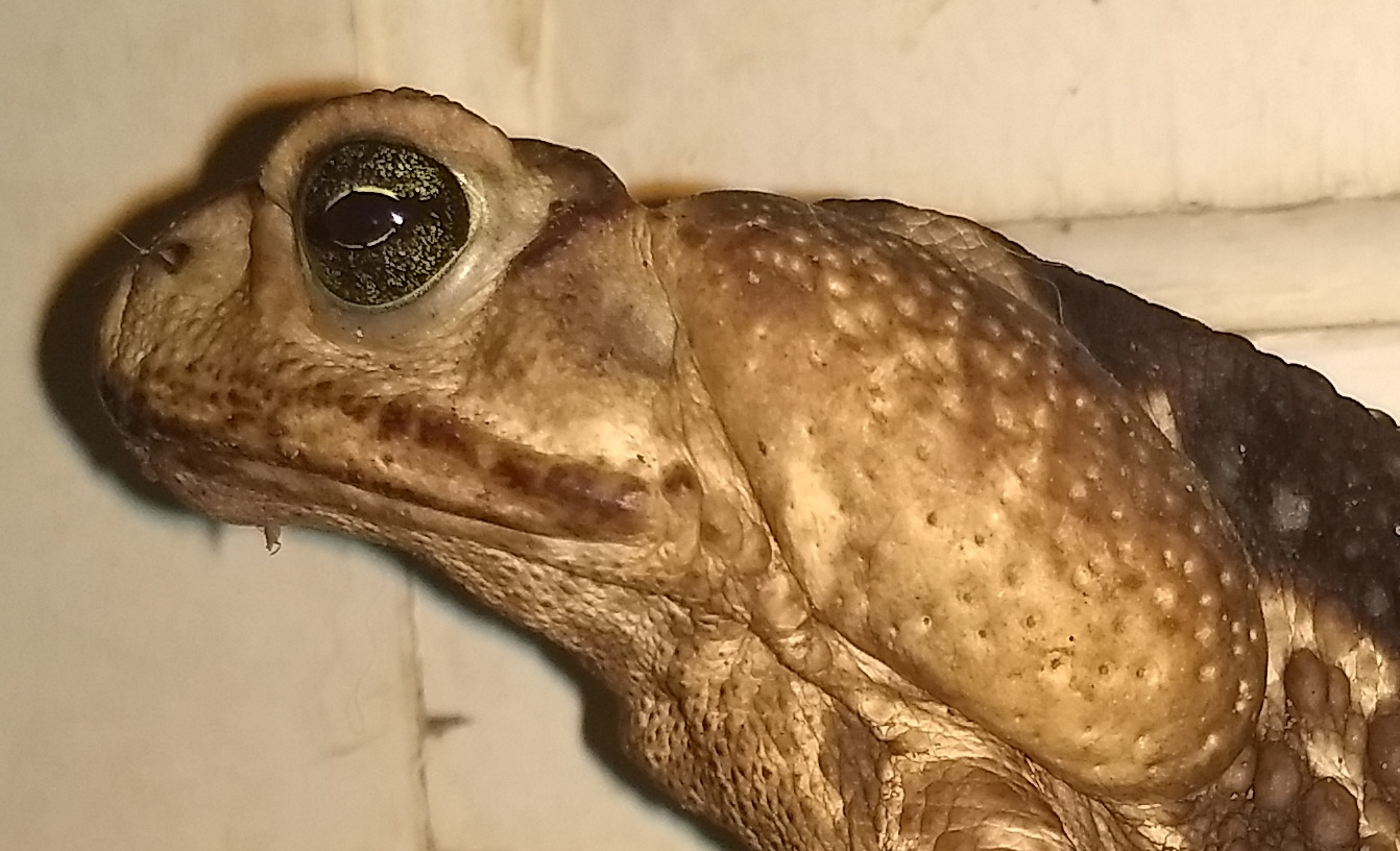 Lateral view of a parotoid gland of a female of Rhinella icterica. The gland correspond the bulky area on right of eye.